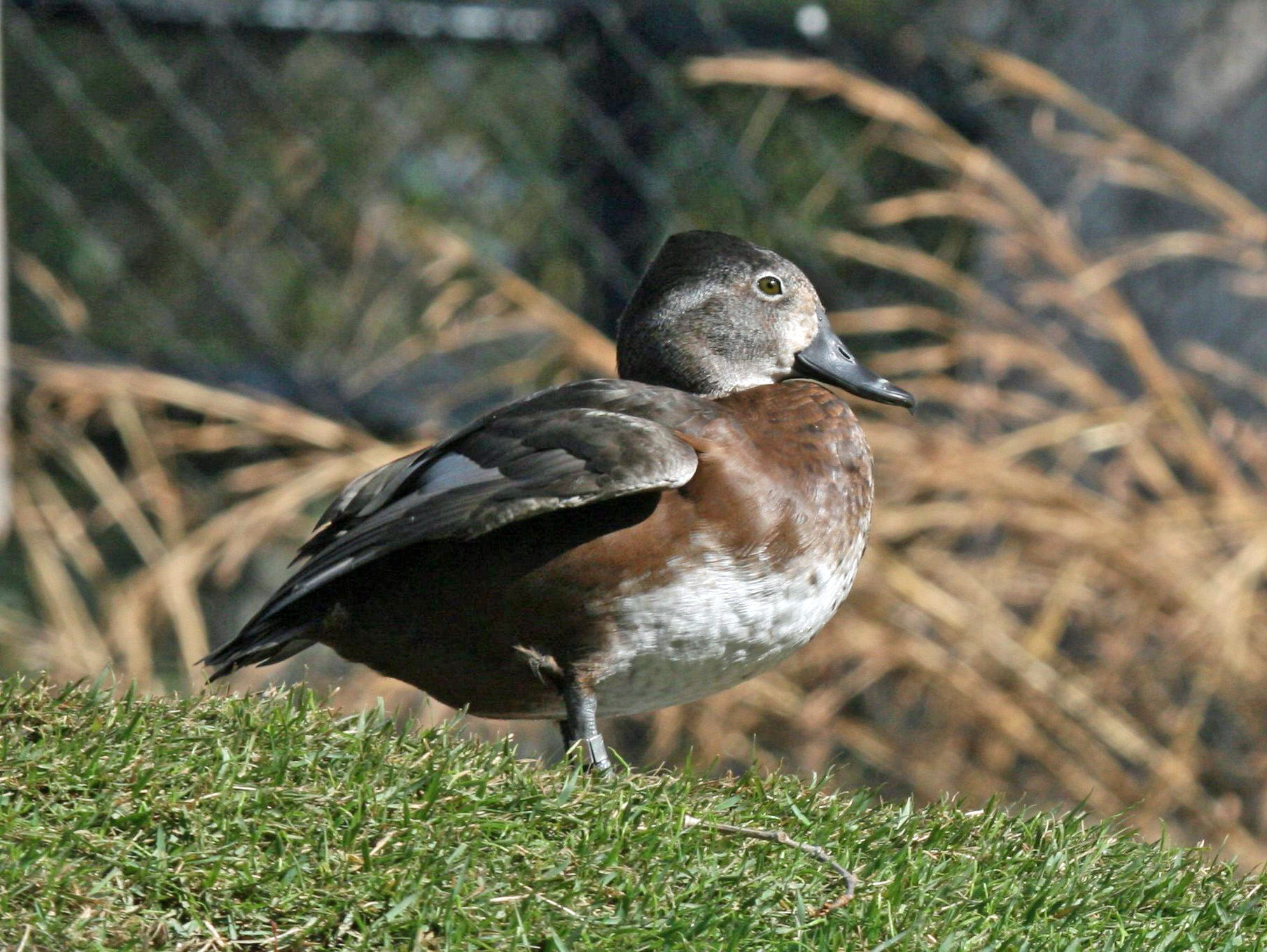 ♀ Ring-necked Duck (Aythya collaris) at Sylvan Heights Waterfowl Park in Scotland Neck, North Carolina.